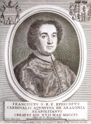 Cardinal Francesco Acquaviva (1665-1725). Effigies Nomina et Cognomina (...) S. R. E. Cardinalium 1658-1870